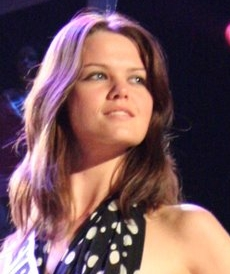 Ehsan Hatem, Miss Egypt 2007, during rehearsals for the Miss Universe 2007 pageant in Mexico City, Mexico